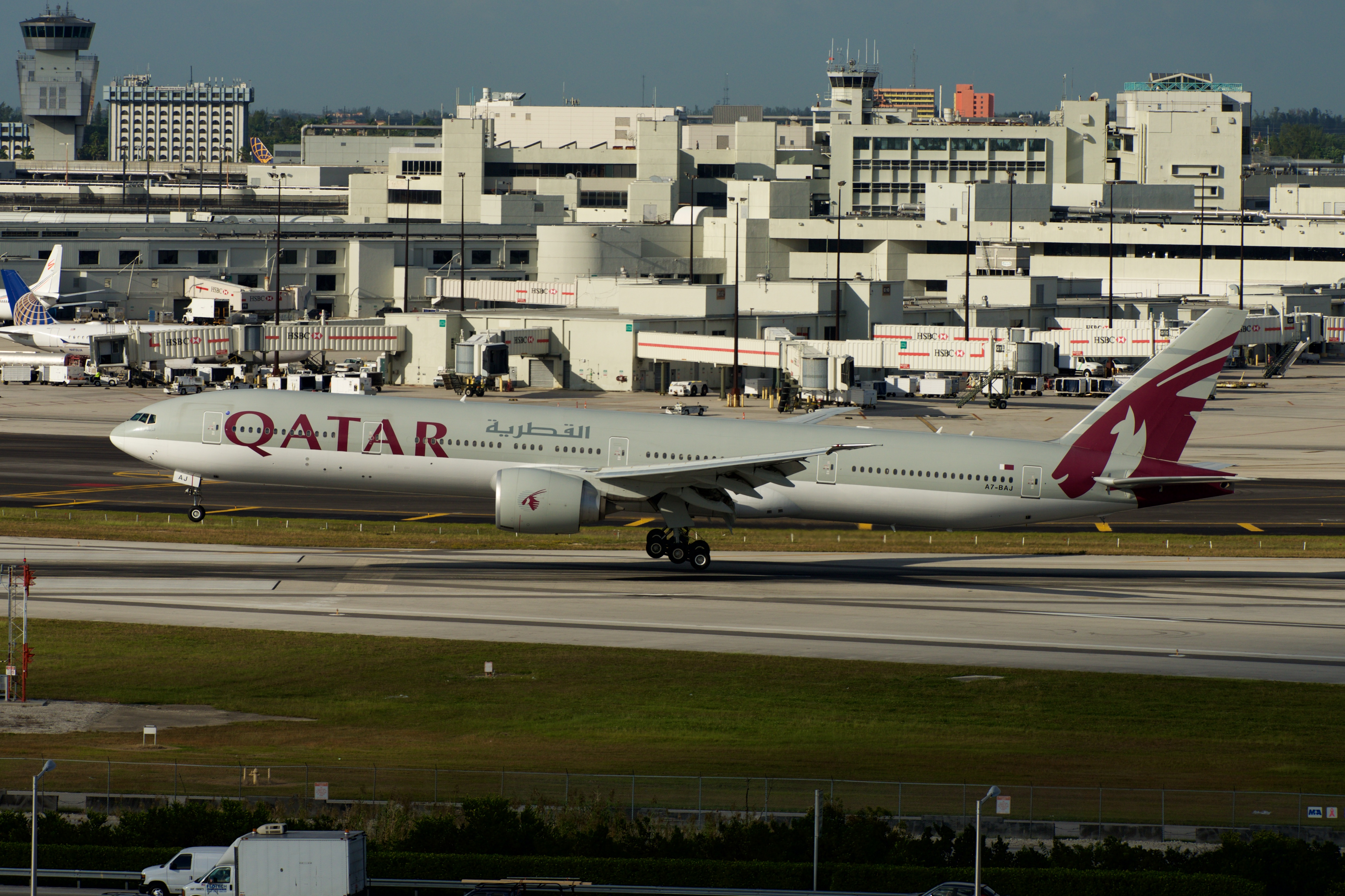 Reaching for the runway, MIA